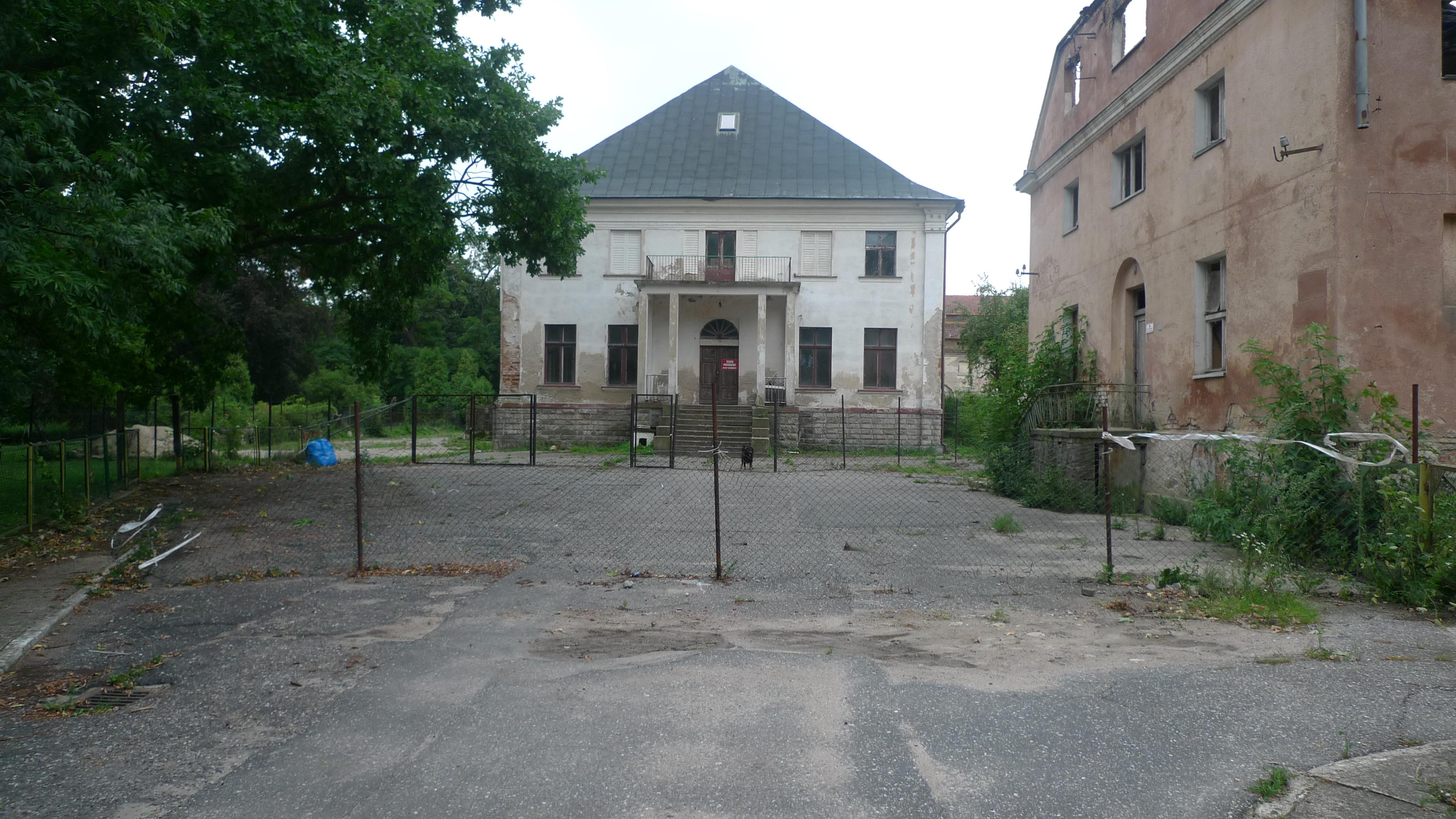 Manor in Krzymów